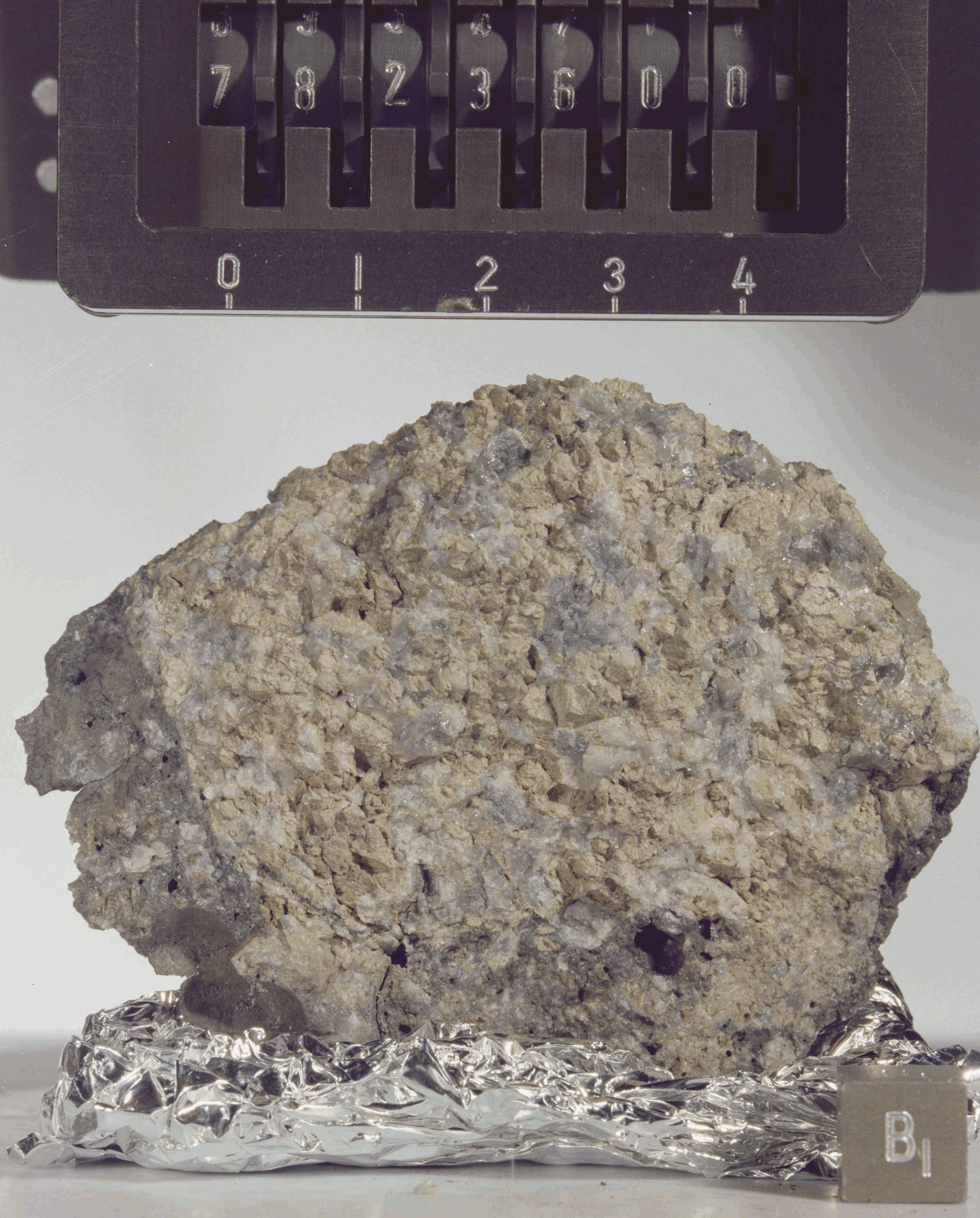 Lunar Sample 78236, Apollo 17. This is a shocked norite from a boulder at Station 8, at the base of the Sculptured Hills.